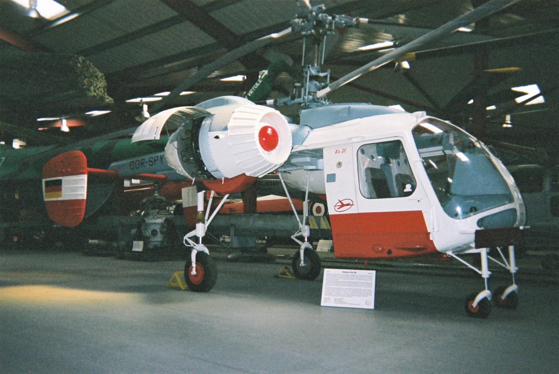 Author: Dave Taskis, 2004